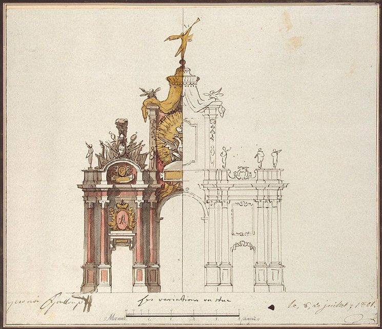 draft of decoration of the Red Gates in Moscow for the 1801 coronation of Alexander I of Russia